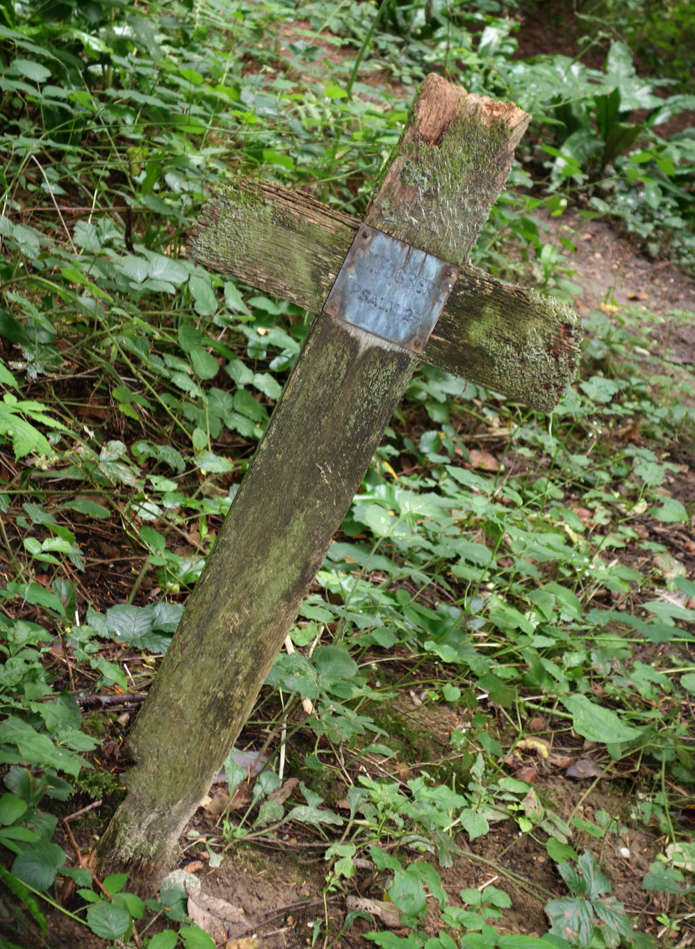 Fosbery's grave, Smallcombe Cemetery, Bath